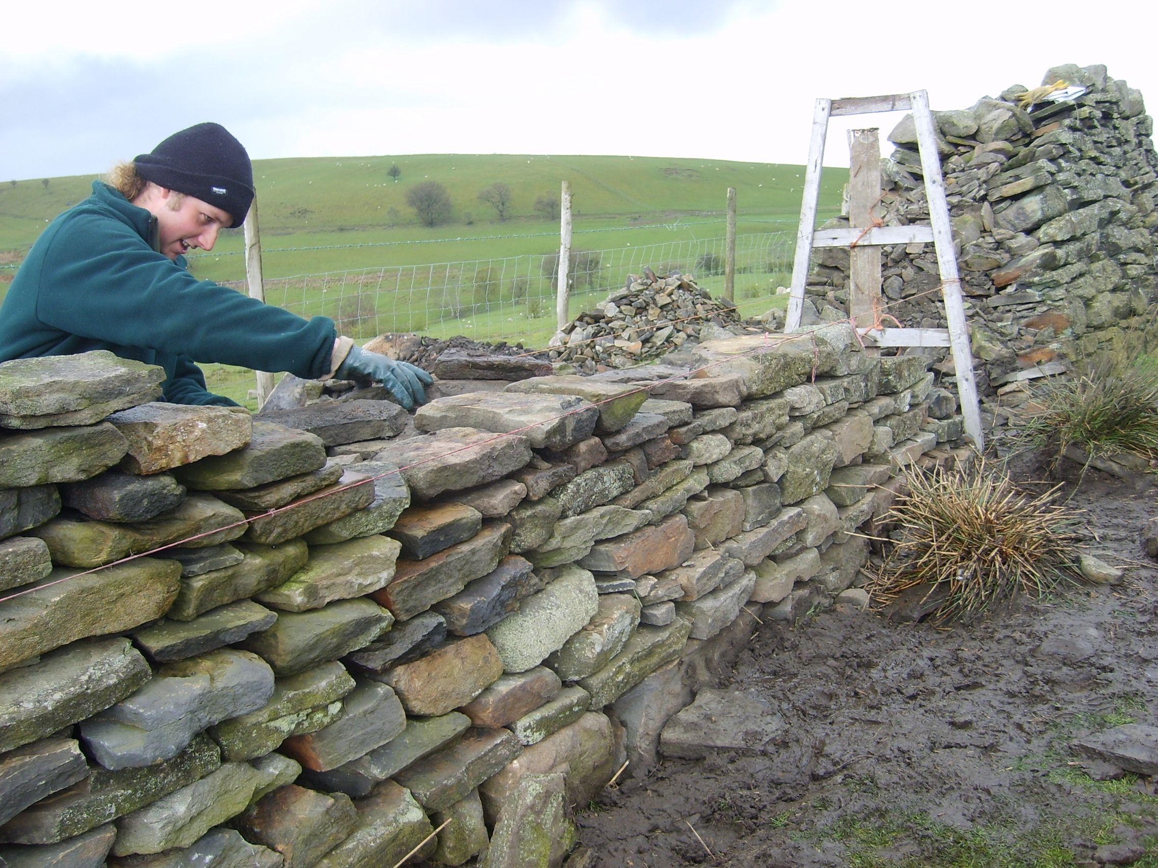 Dry stone wall building in South Wales